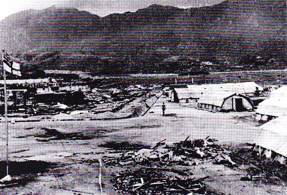 Destruction of Kai Tak Airport during Typhoon Ingrid